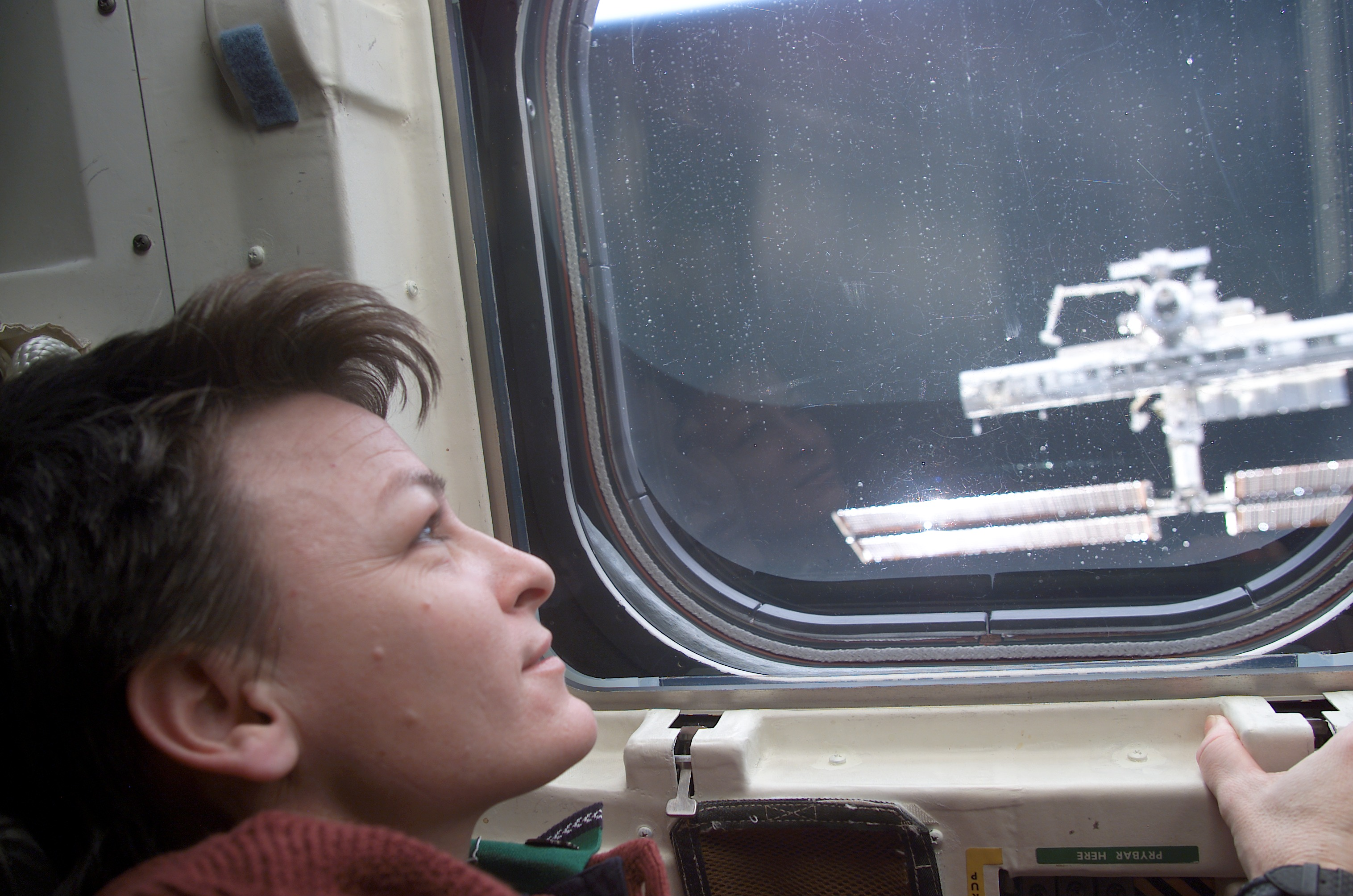 Astronaut Peggy A. Whitson, Expedition Five NASA ISS science officer, looks at the International Space Station (ISS) through a window on the Space Shuttle Endeavour following the undocking of the two spacecraft. Endeavour pulled away from the complex at 2:05 p.m. (CST) on December 2, 2002 as the two spacecraft flew over northwestern Australia.